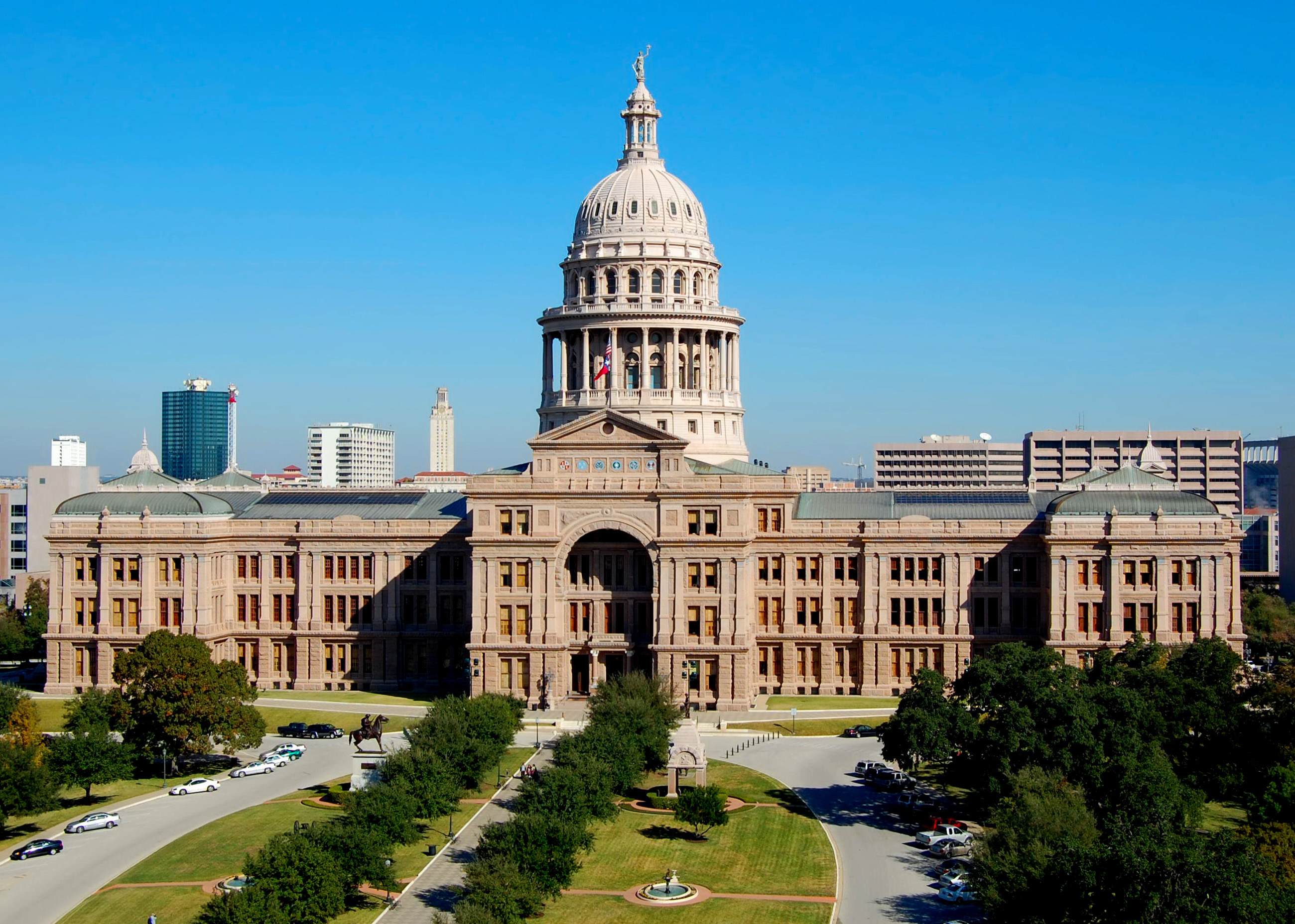 Texas State Capitol in Austin, Texas. Designed by the architect Elijah E. Myers. Built in 1882-1888.